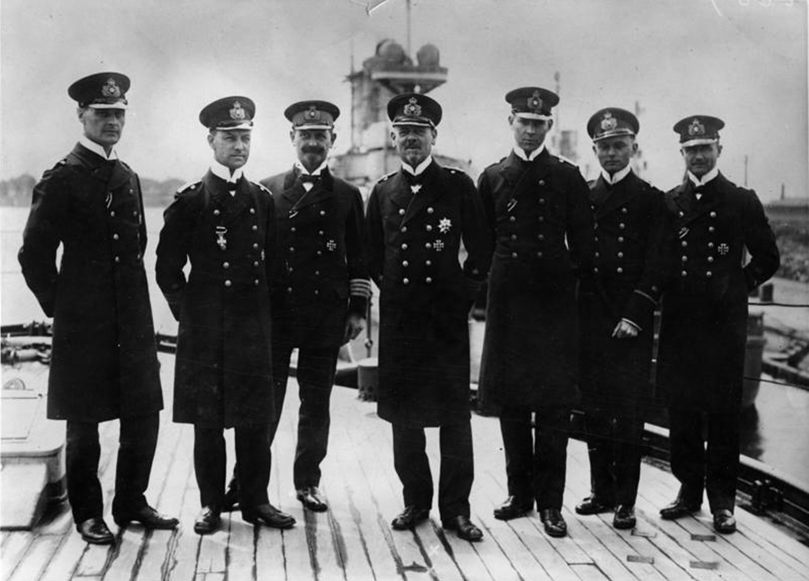 German Vice Admiral Hipper commander of the scouting force during the battle of Jutland and his staff.